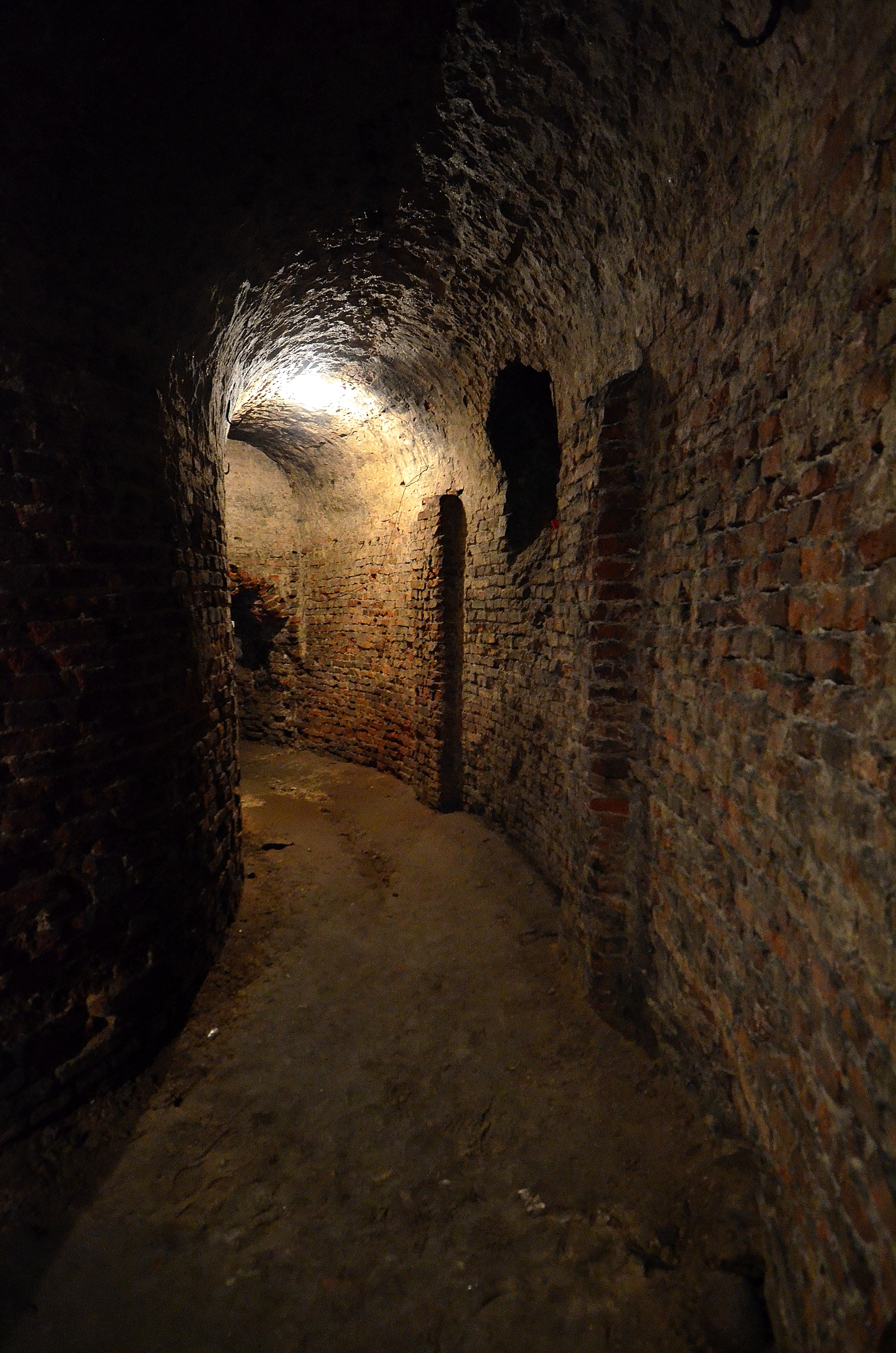 A corridor around the main chamber of the Elizeum in Warsaw (listed in the Register of Historic Monuments on 1.07.1965, reference no. 278)